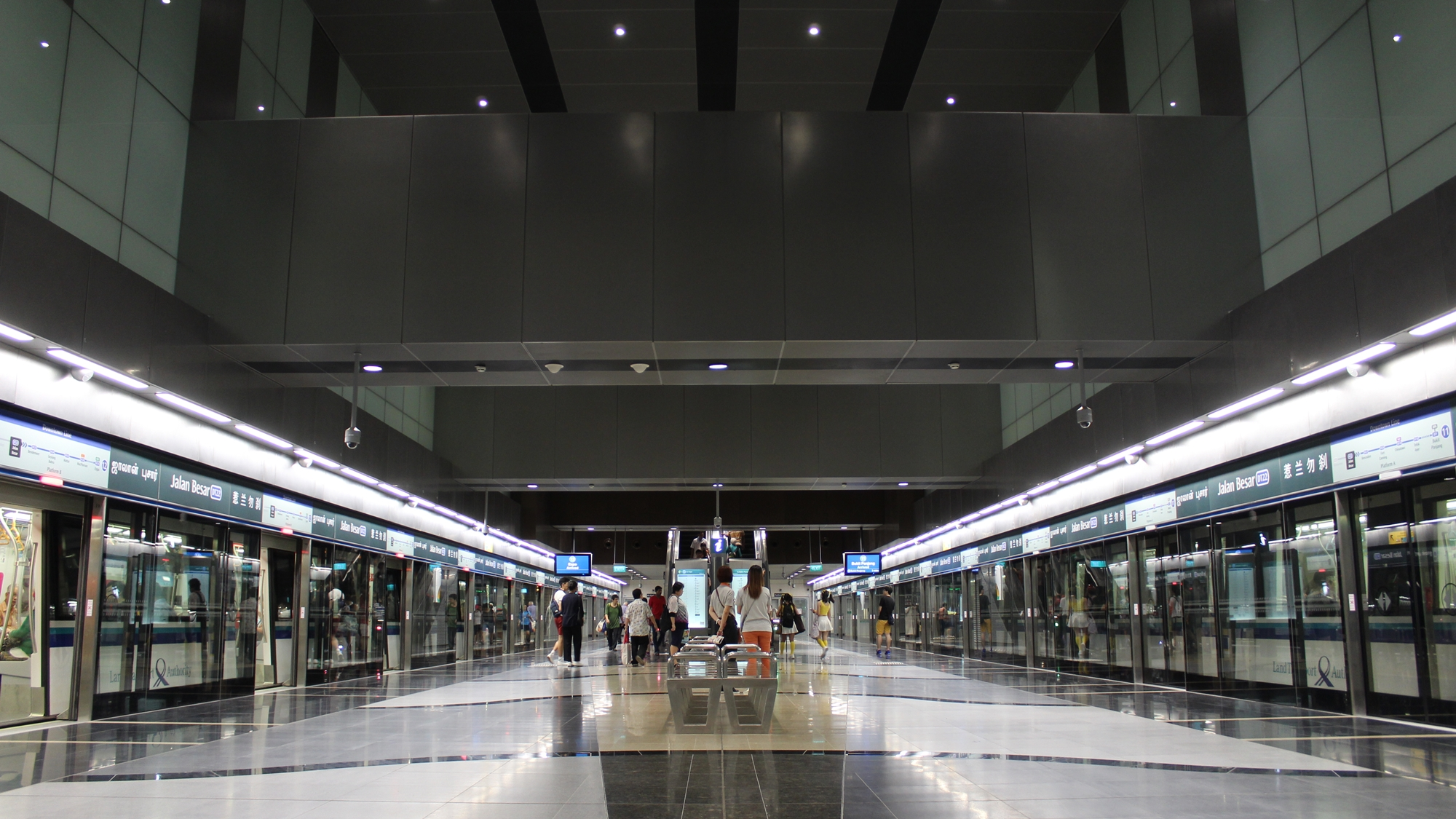 DT22 Jalan Besar station